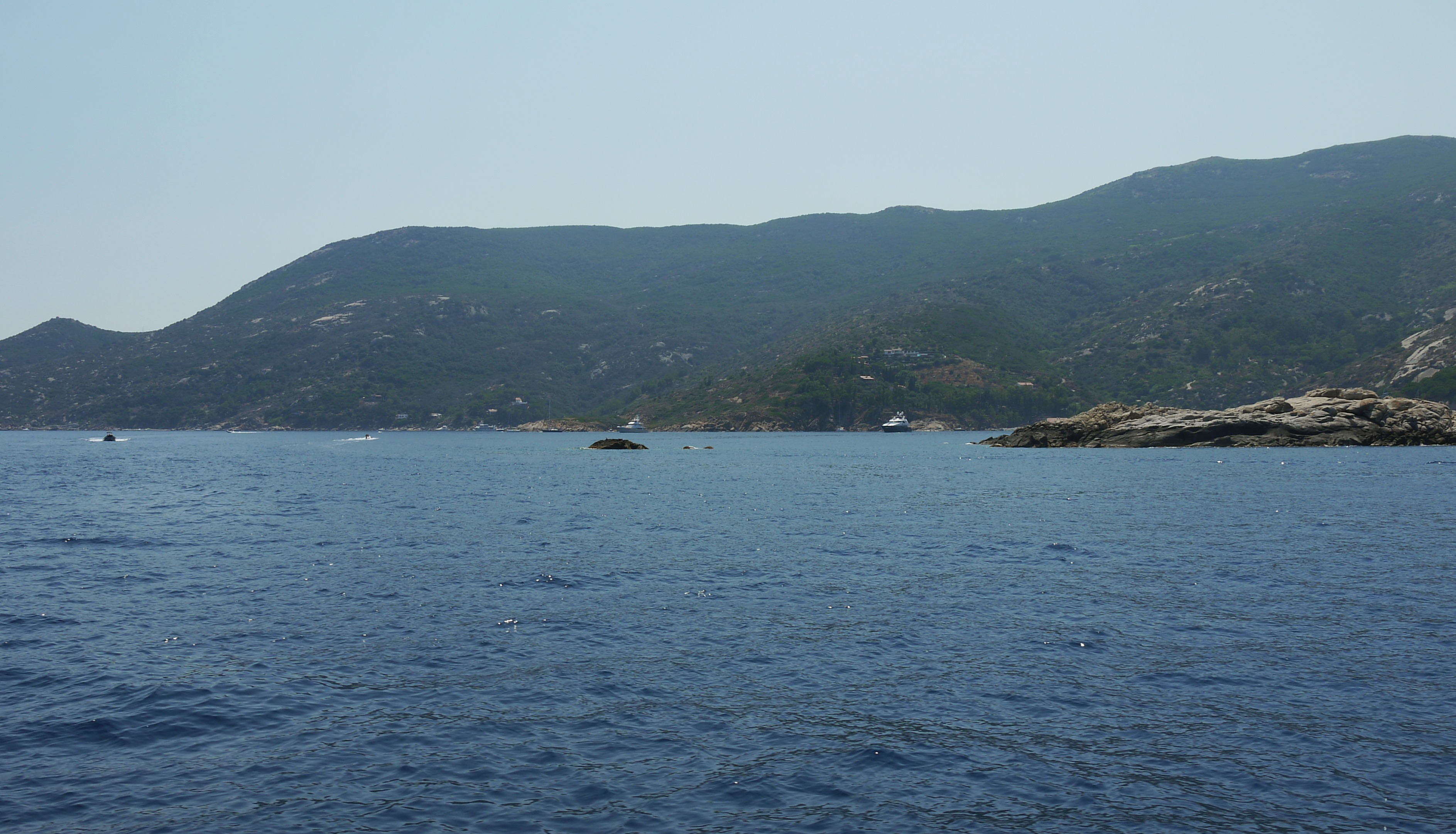 Scola grande and Scola piccola cliffs near Isola del Giglio; the cruise ship Costa Concordia hit the unterwater part of Scola piccola before grounding near Giglio Porto